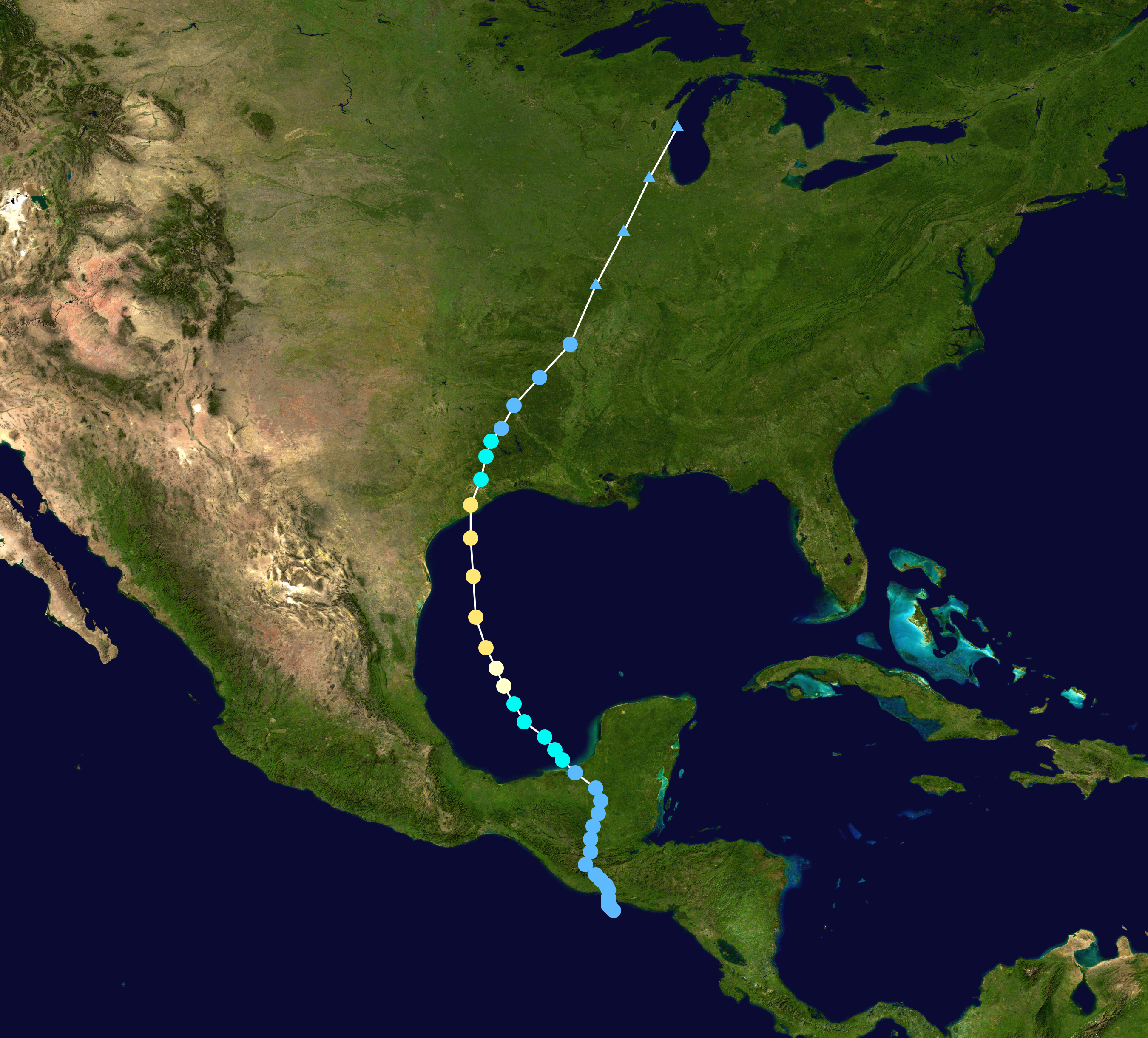 Track map of Hurricane Eleven of the 1949 Atlantic hurricane season. The points show the location of the storm at 6-hour intervals. The colour represents the storm's maximum sustained wind speeds as classified in the Saffir–Simpson scale (see below), and the shape of the data points represent the nature of the storm, according to the legend below. Saffir–Simpson scale Tropical depression≤38 mph≤62 km/h Category 3111–129 mph178–208 km/h Tropical storm39–73 mph63–118 km/h Category 4130–156 mph209–251 km/h Category 174–95 mph119–153 km/h Category 5≥157 mph≥252 km/h Category 296–110 mph154–177 km/h Unknown Storm typeTropical cycloneSubtropical cycloneExtratropical cyclone / Remnant low / Tropical disturbance